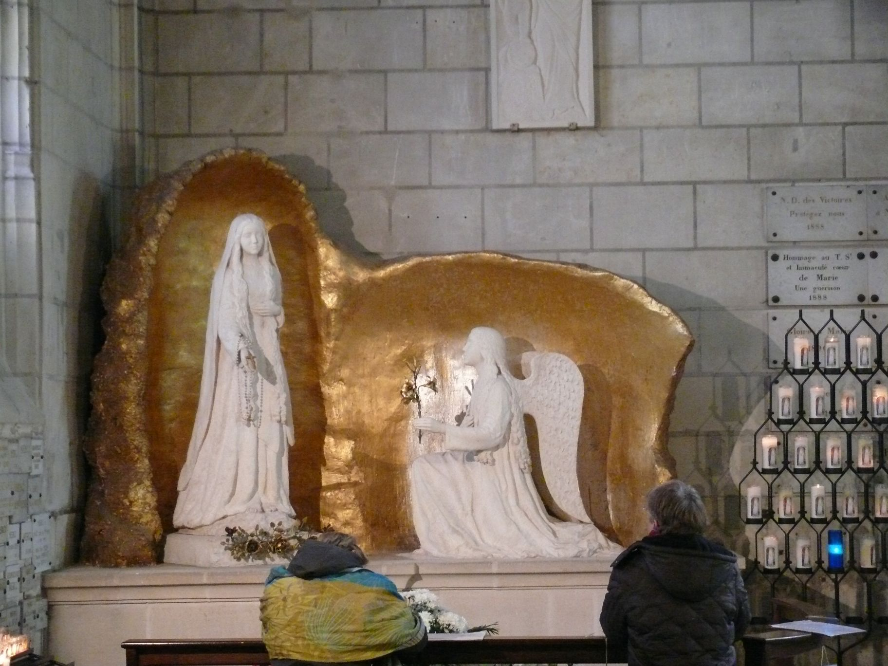 Saint-Gilles' church of LÎle-Bouchard (Indre-et-Loire, Centre, France).